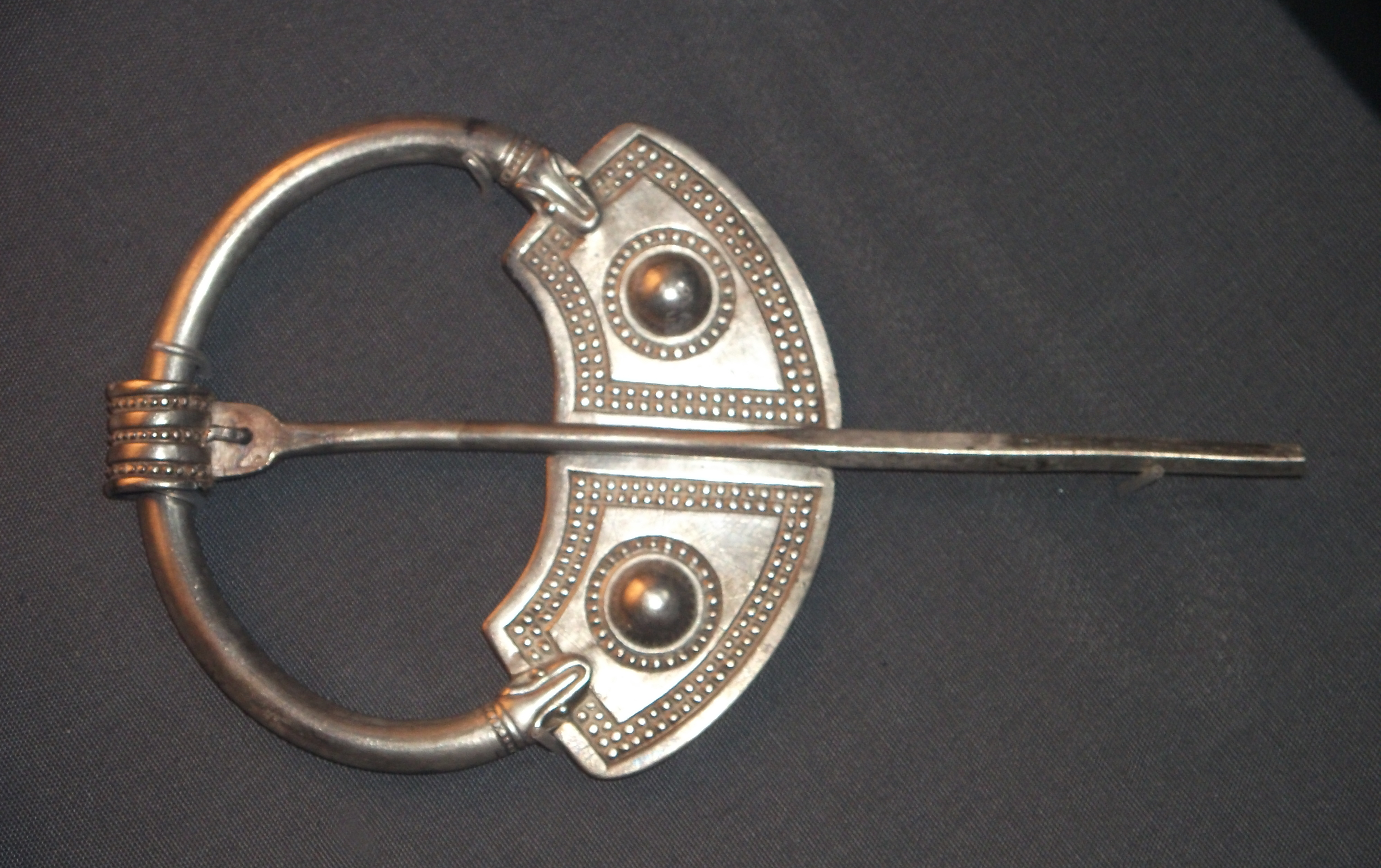 brooch